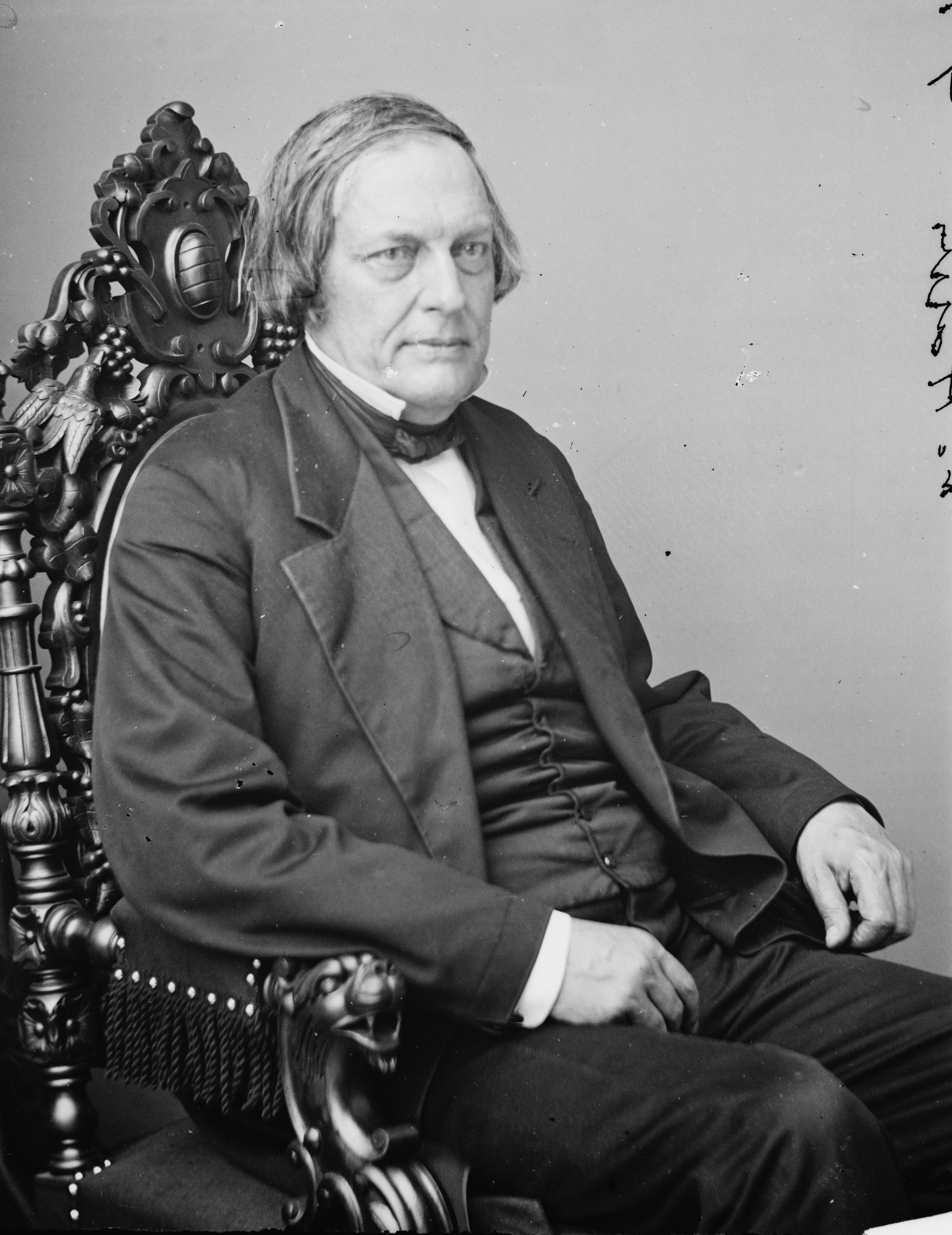 Ira Harris. Library of Congress description: "Hon. Ira Harris"